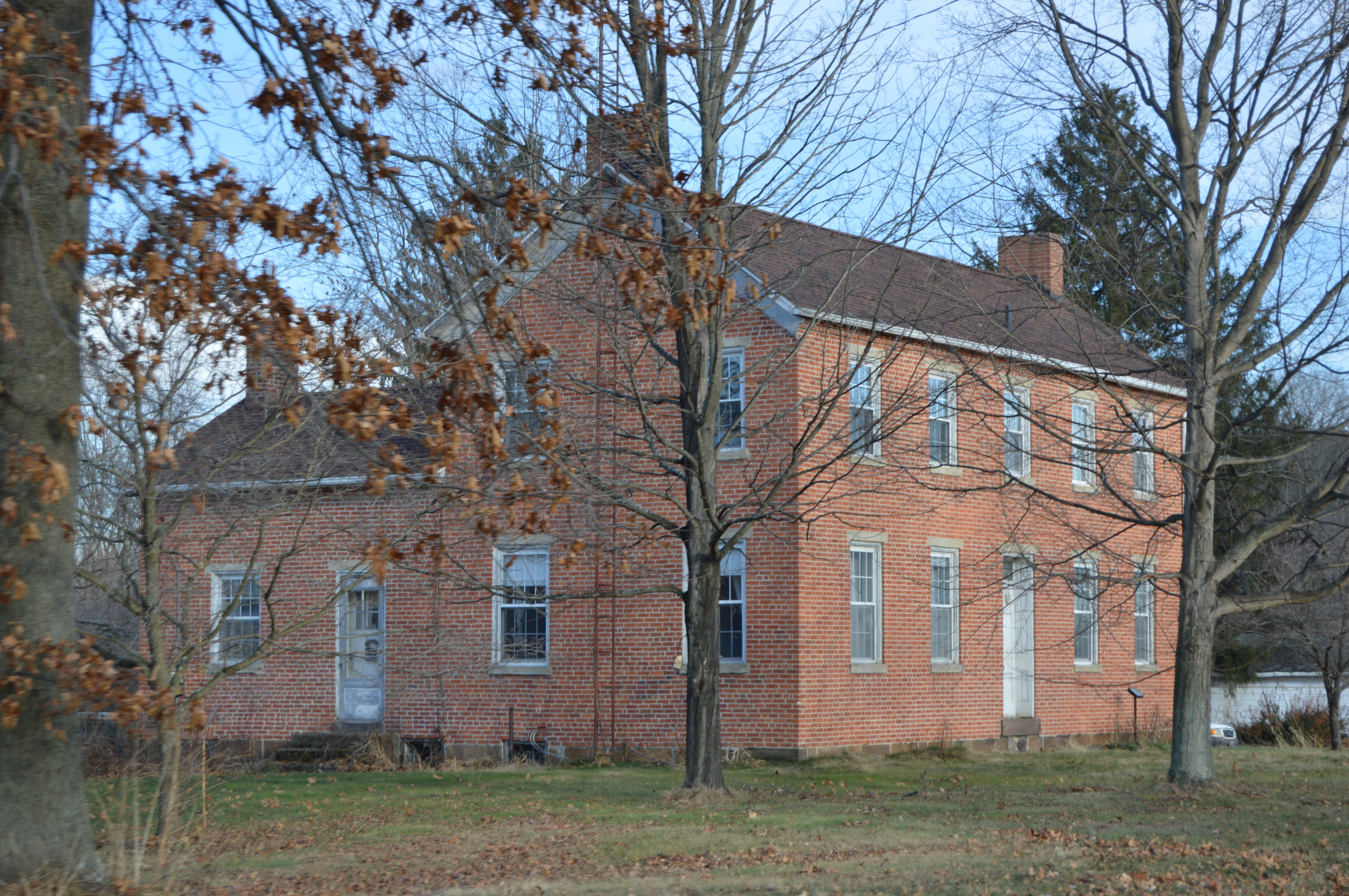 Western side and front of the Thomas Johnson House, located on the northern side of Main Street (State Route 93) at the College Avenue intersection in Plainfield, Ohio, United States. Built in 1836, it is listed on the National Register of Historic Places.